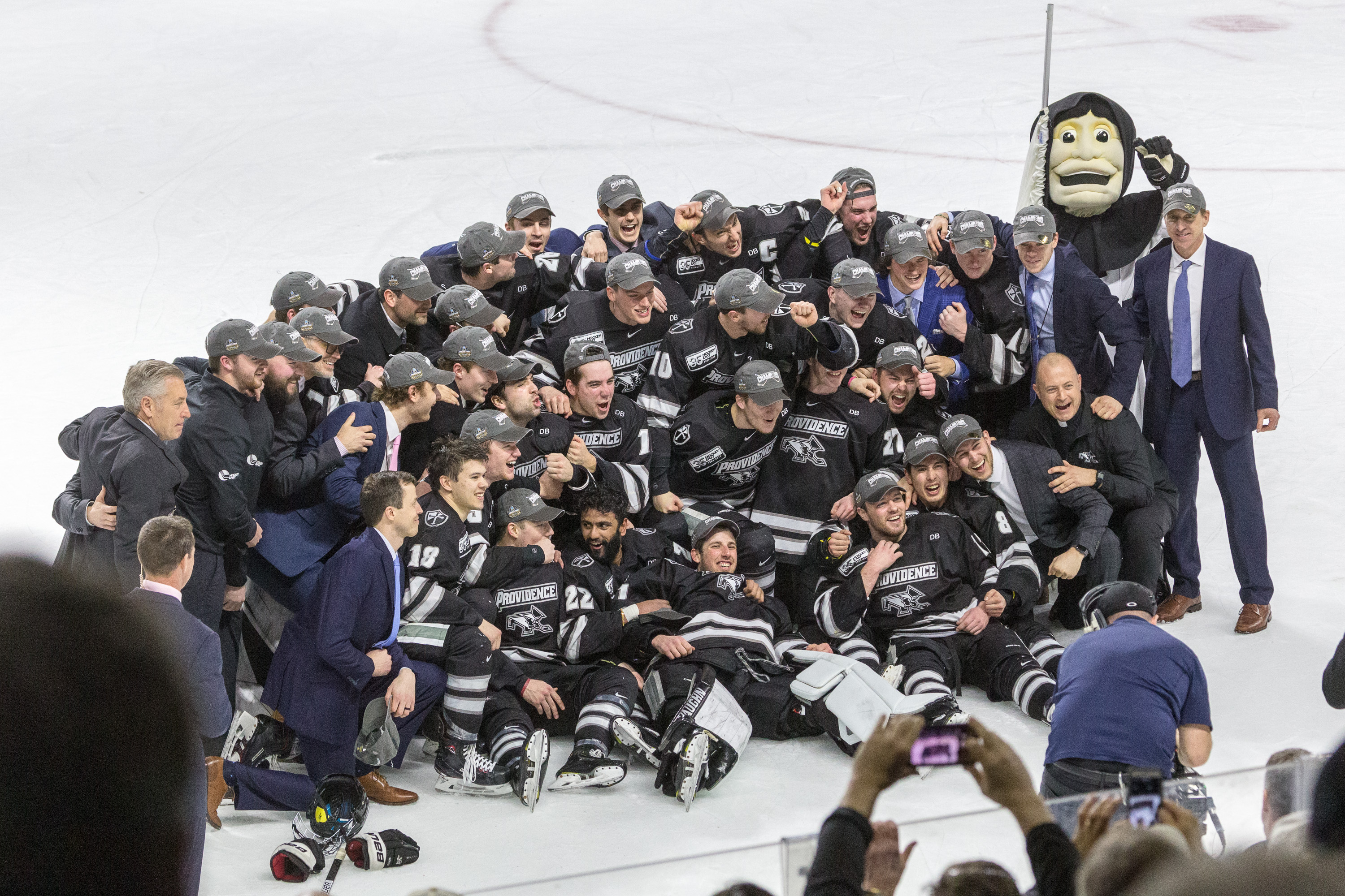 Providence College hockey Friars pose after beating Cornell, 4-0, in the NCAA Hockey East Regional at the Dunkin’ Donuts Center, Povidence, Rhode Island.